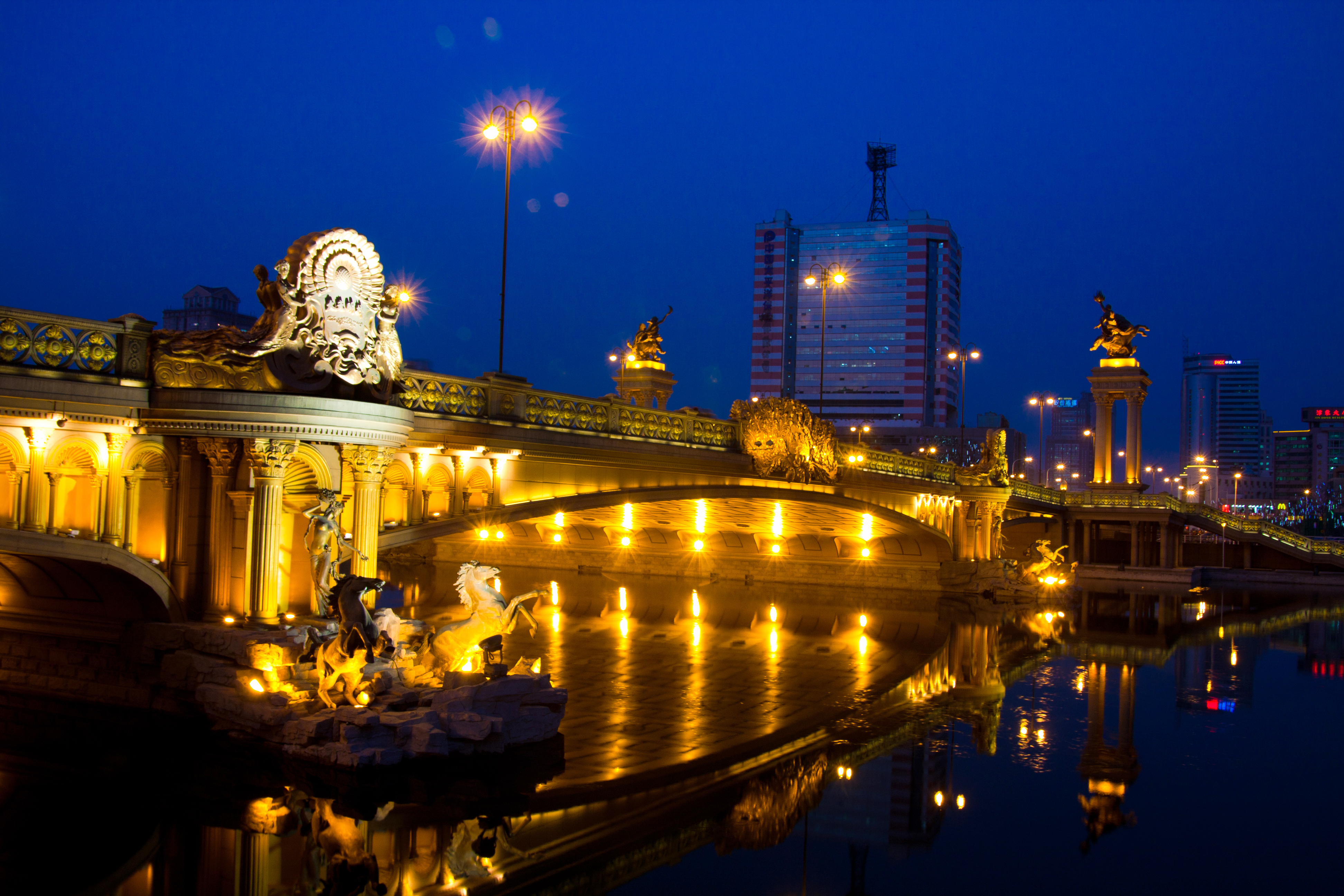 Great Bridge, Tianjin